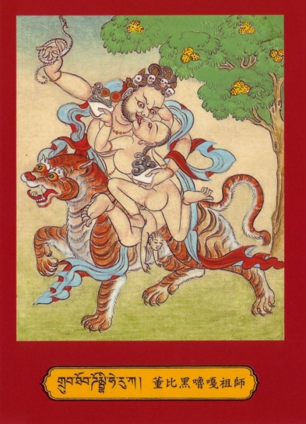 Dombipa, 9th Century Buddhist Mahasiddha